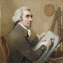 A self-portrait of the artist, seated at his drawing board holding a pencil; easel and palette in background